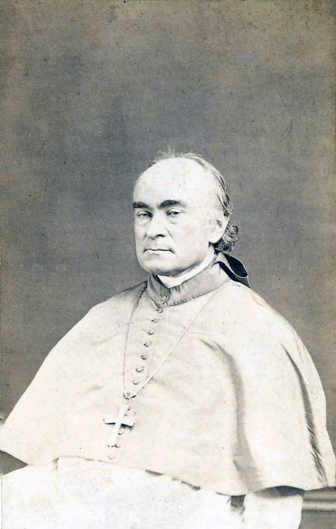 John Baptist Purcell Photograph / Archives of the Archdiocese of Cincinnati